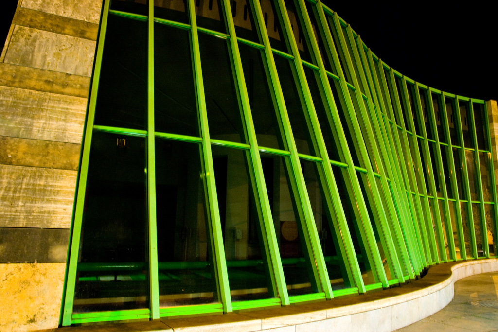 Outside view of the foyer of the State Gallery at Stuttgart, Germany